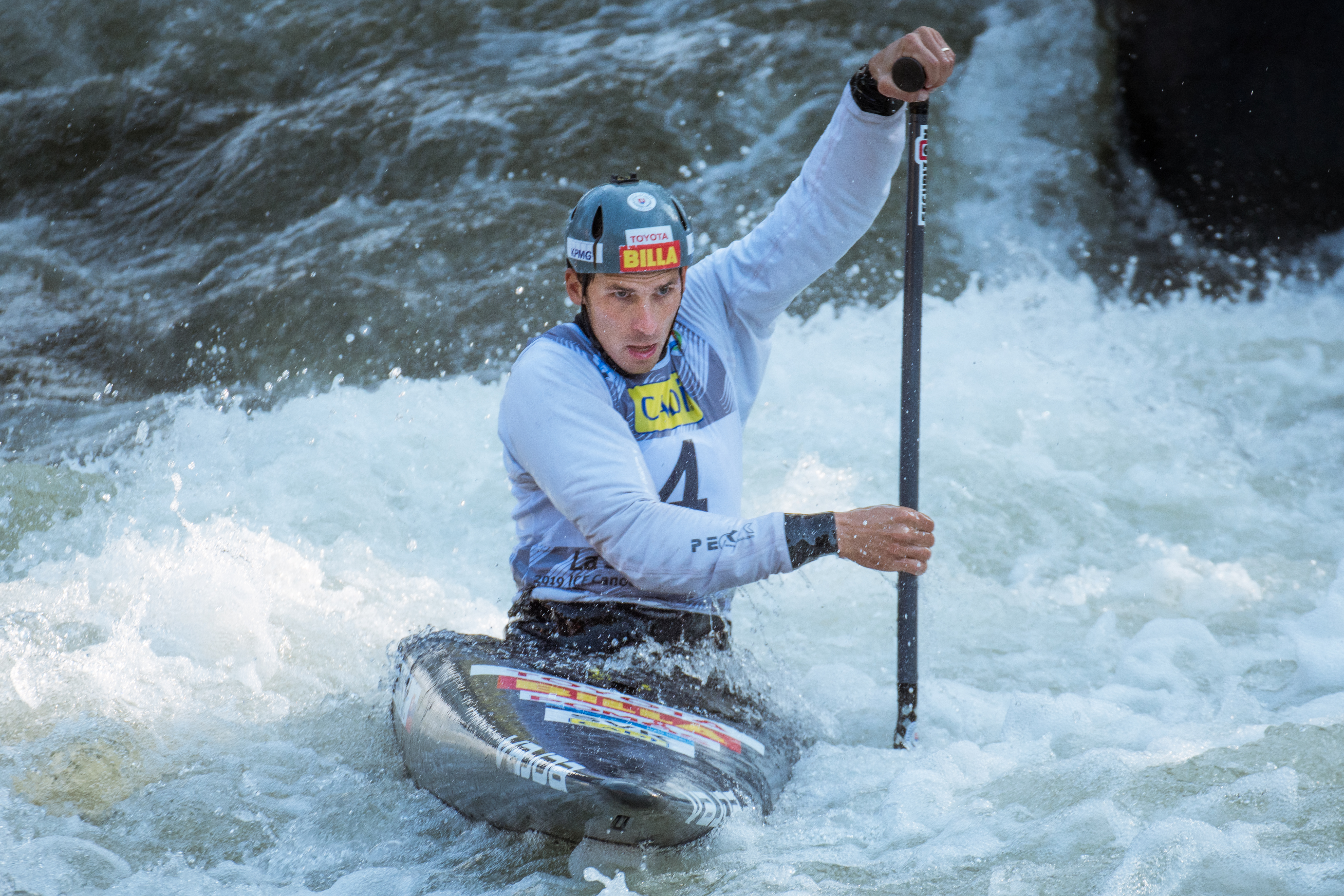 Matej Beňuš during the 2019 Canoe Slalom World Championships in La Seu d'Urgell, Spain.